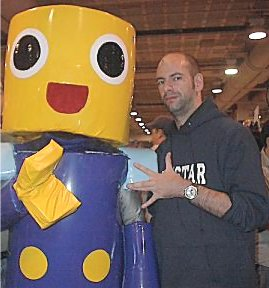 Brian Wood, writer, illustrator, and graphic designer. Currently living in Brooklyn, New York, he is known primarily as a comic book creator, being the author of titles such as the acclaimed DMZ and Demo.